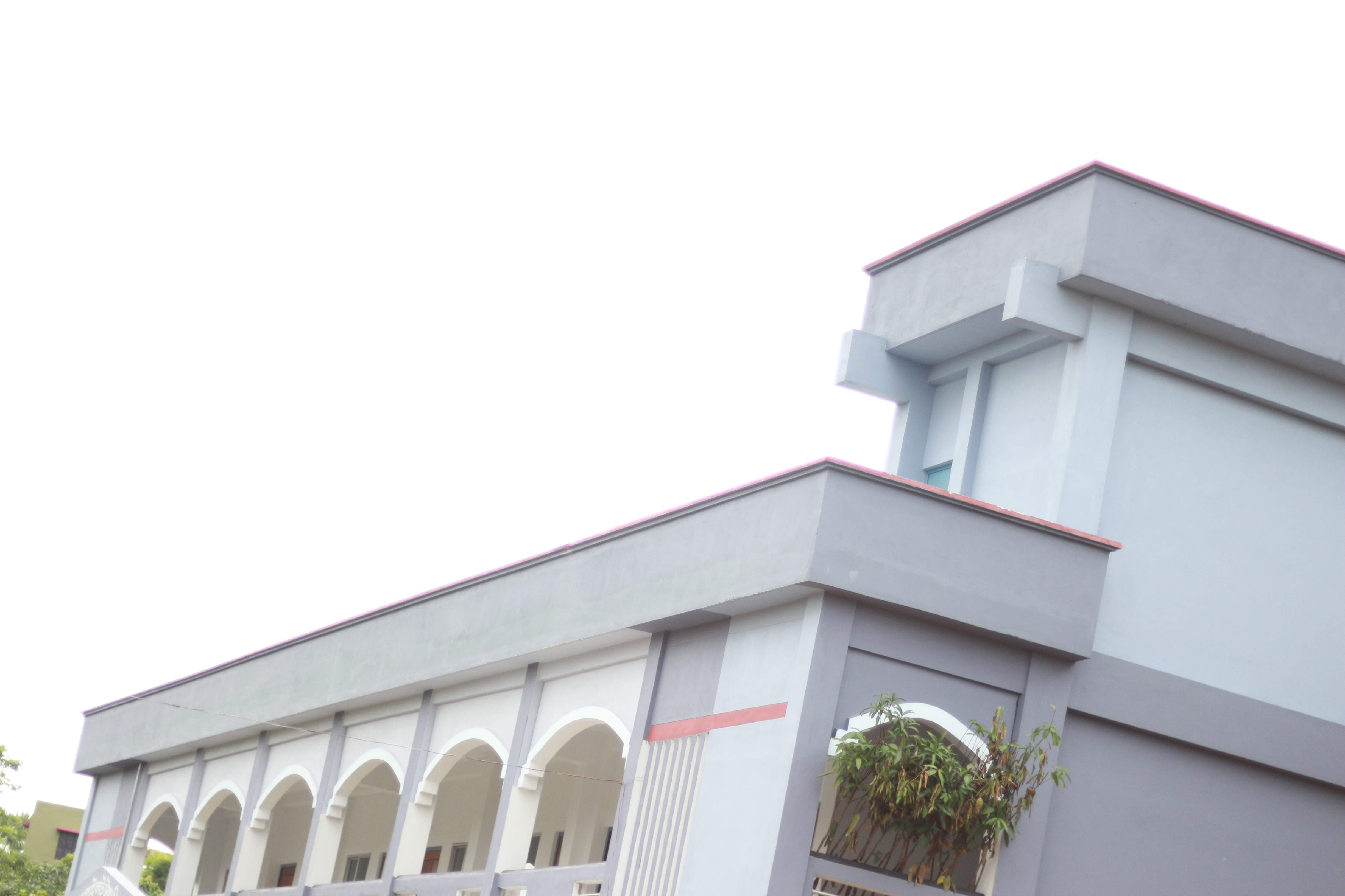 Nachole Pilot High School . Prorate View.